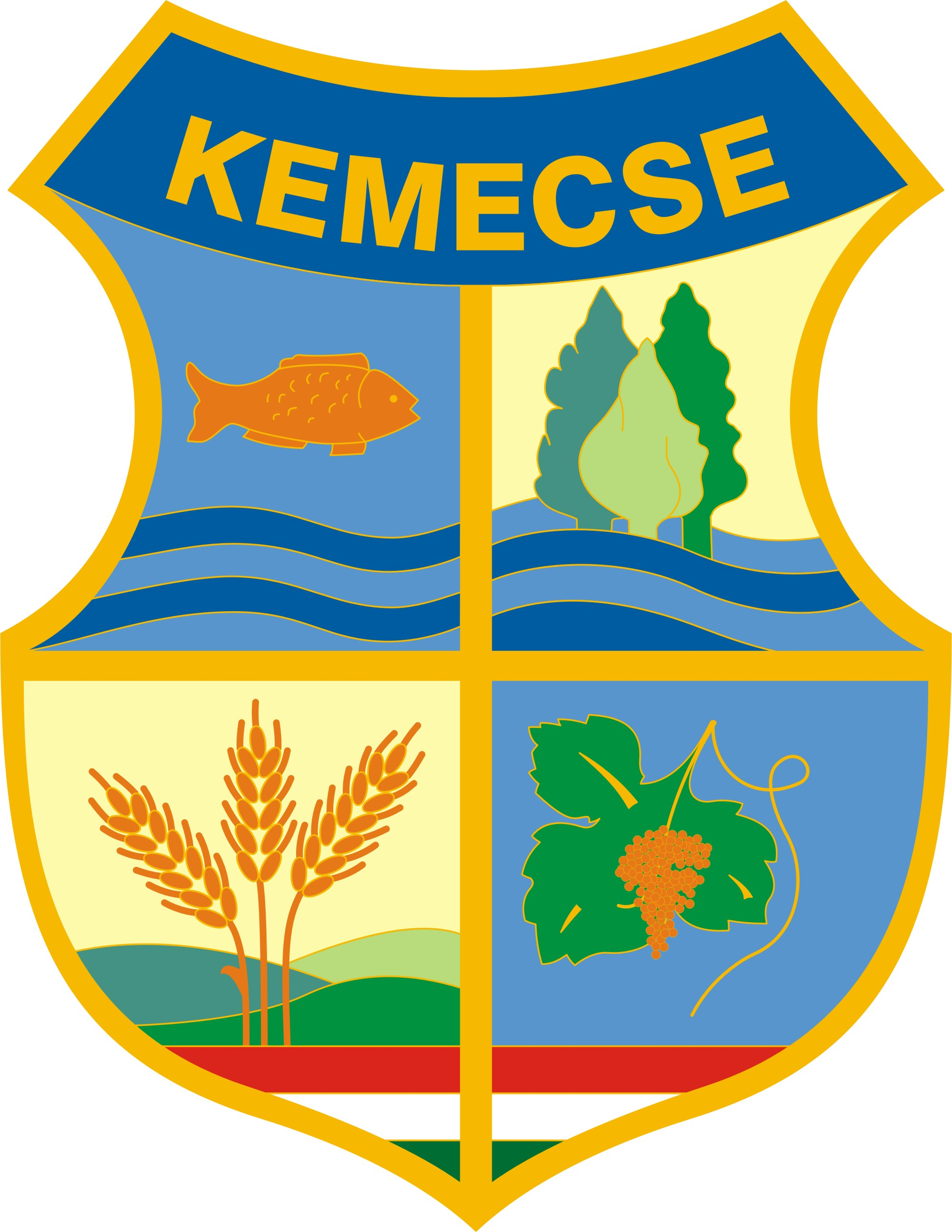 Coat of arms of Kemecse, Hungary